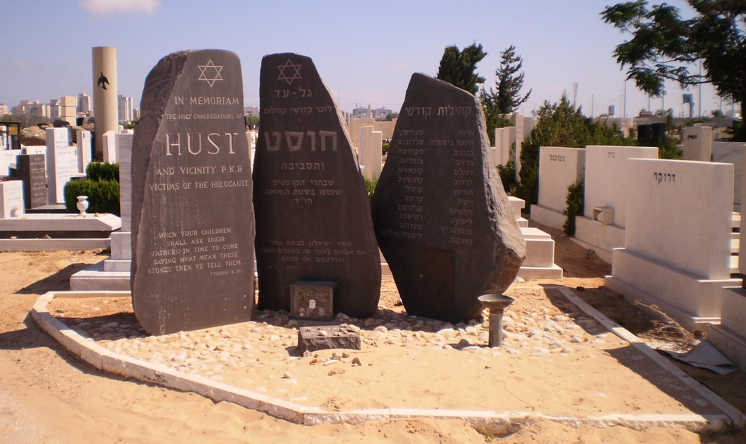 Khust Jewery Holocaust memorial at Holon Cemetery